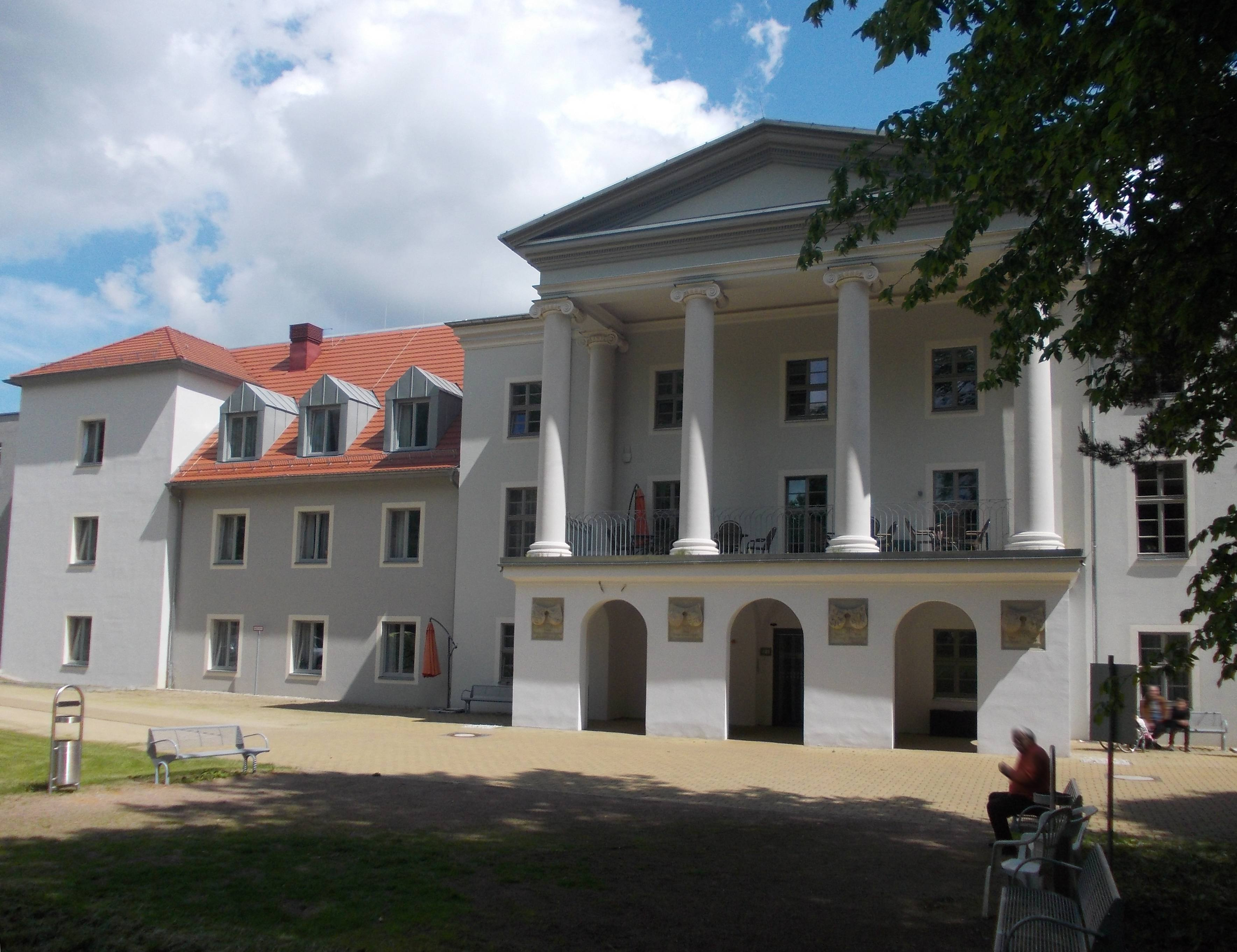 Löbichau Castle (Altenburger Land district, Thuringia)